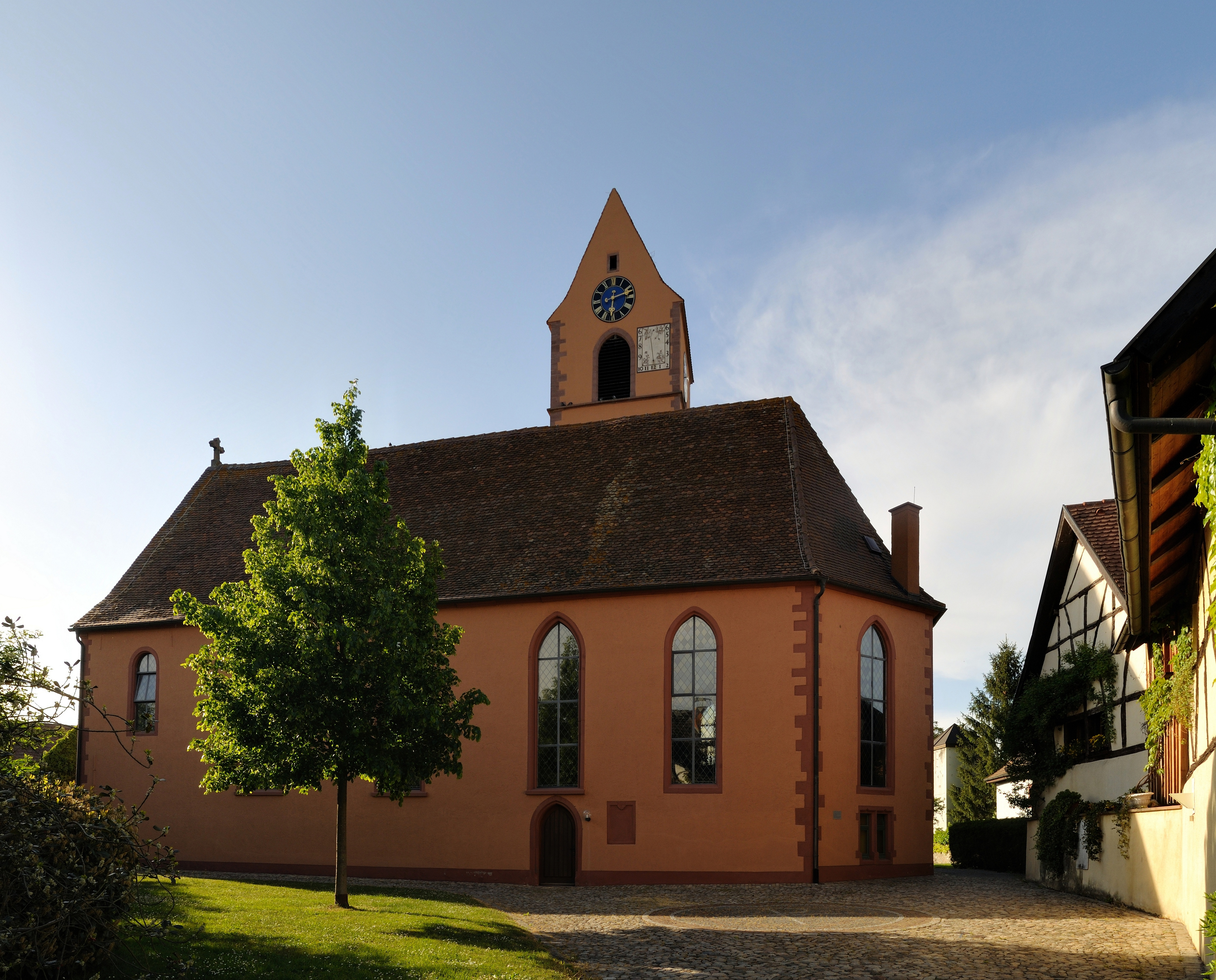 Kirchen: Protestant Church